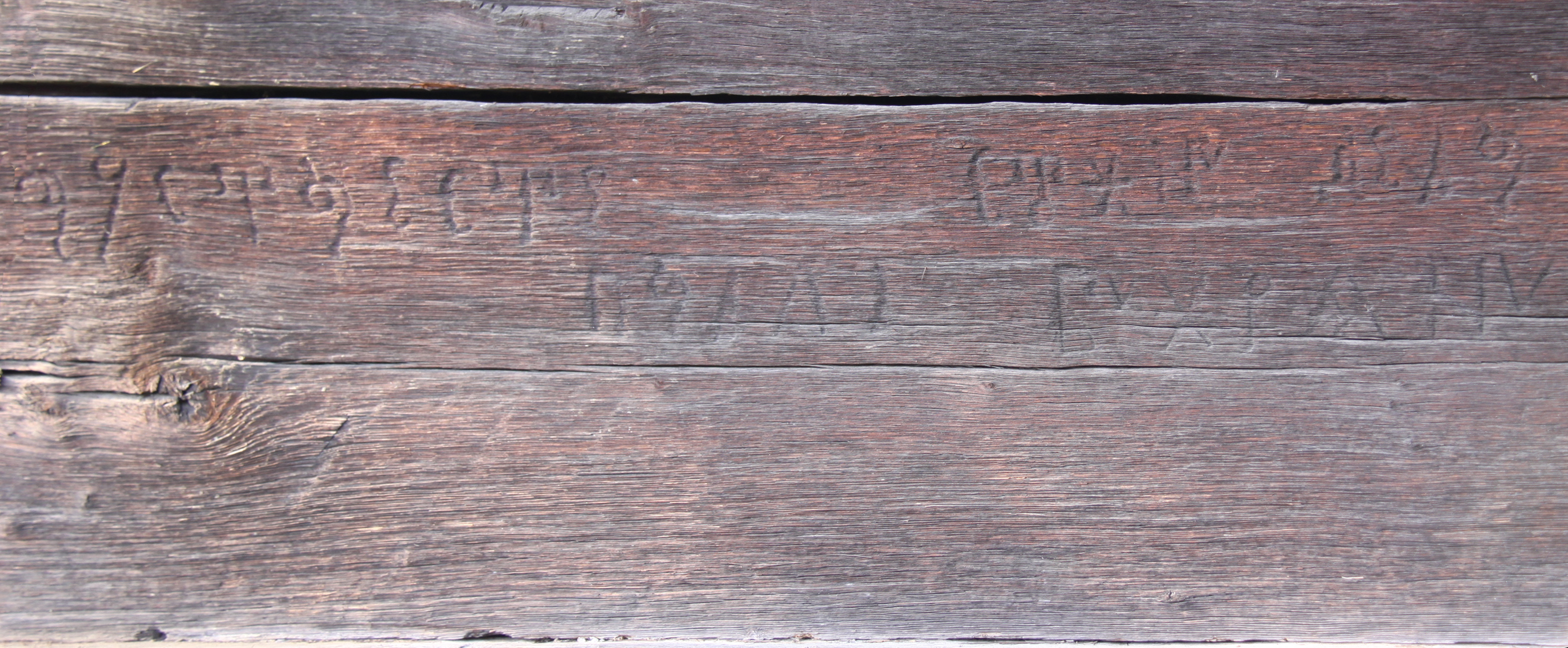 Mănăileşti-Moşneni, Vâlcea, România: the wooden church, inscription on the South wall.